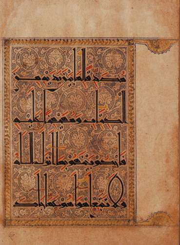 Qur'anic Manuscript - 12th Century